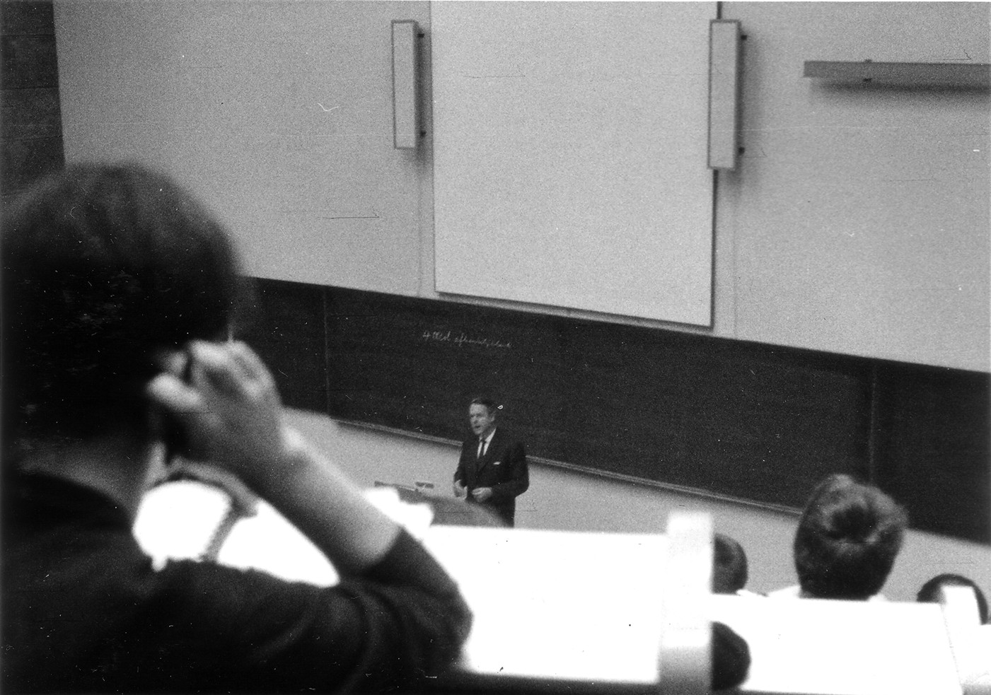 Picture taken of the Dutch ethologist Adriaan Kortlandt while lecturing on animal psychology. Taken in spring 1966.